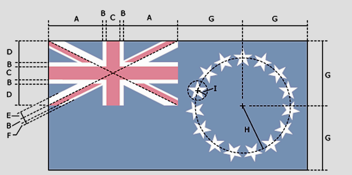 Flag of Cook Islands (construction)